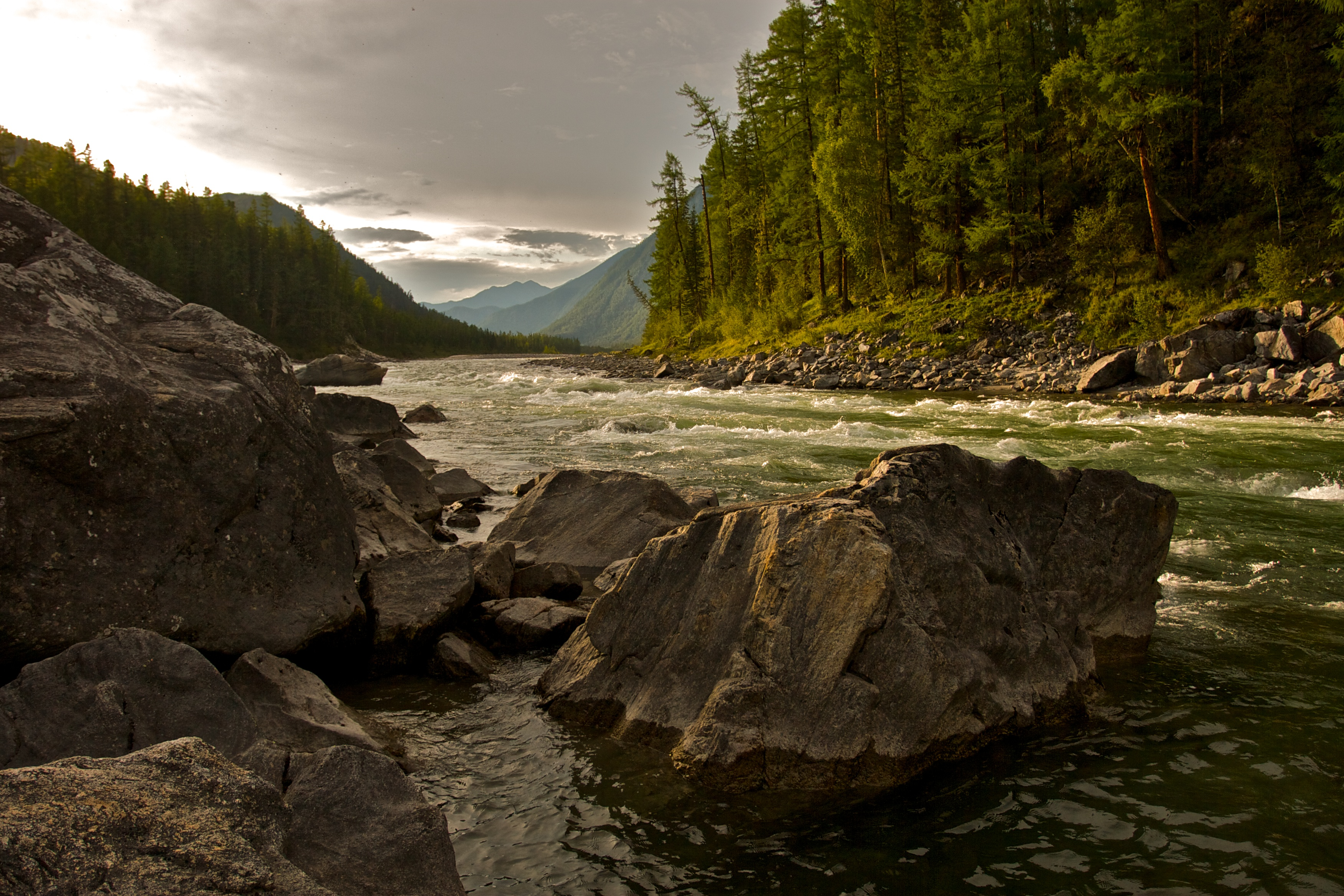 These photos was make during expedition at Sayan Mountains on august 2011. All photos shared under Attribution-ShareAlike Creative Commons license because of nature is our heritage. So you can use these photos as long as you credit me. But if you want - you can send to me money on my next expedition using paypal .